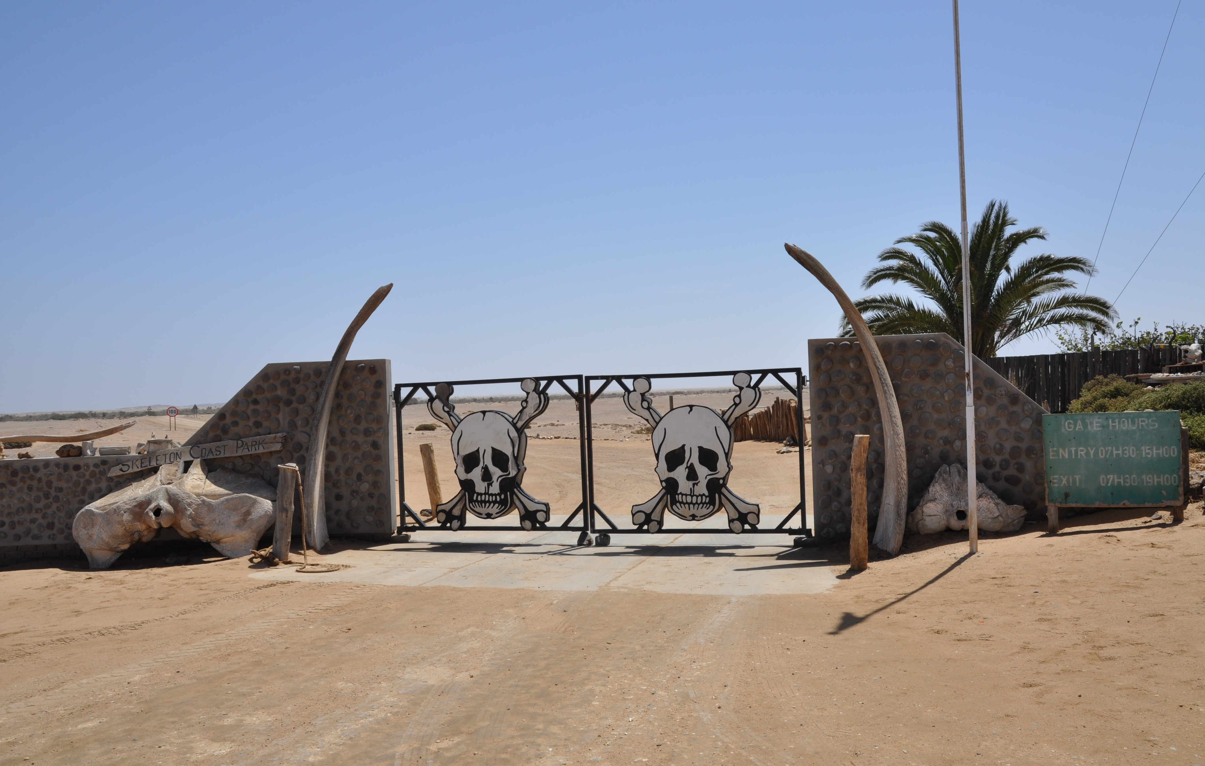 Southern Entrance to the Skeleton Coast National Park, Namibia